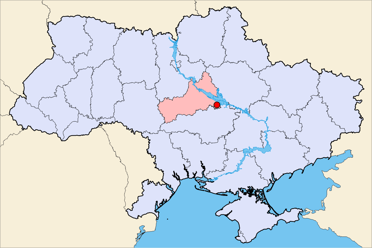 Description = Chyhyhyn geographical position Source = own work, Skluesener Date = 22.01.2006 Author = Skluesener Credits = Colours chosen according to a map of steschke